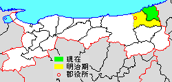 Map of Iwami District, Tottori prefecture, Japan.